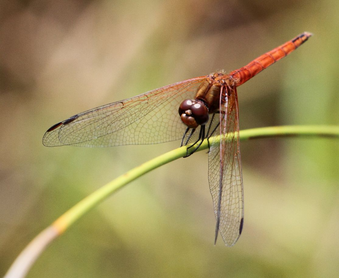 Male Trithemis pluvialis, Russet Dropwing. Northern KwaZulu-Natal, South Africa. OdonataMAP record no. 8679